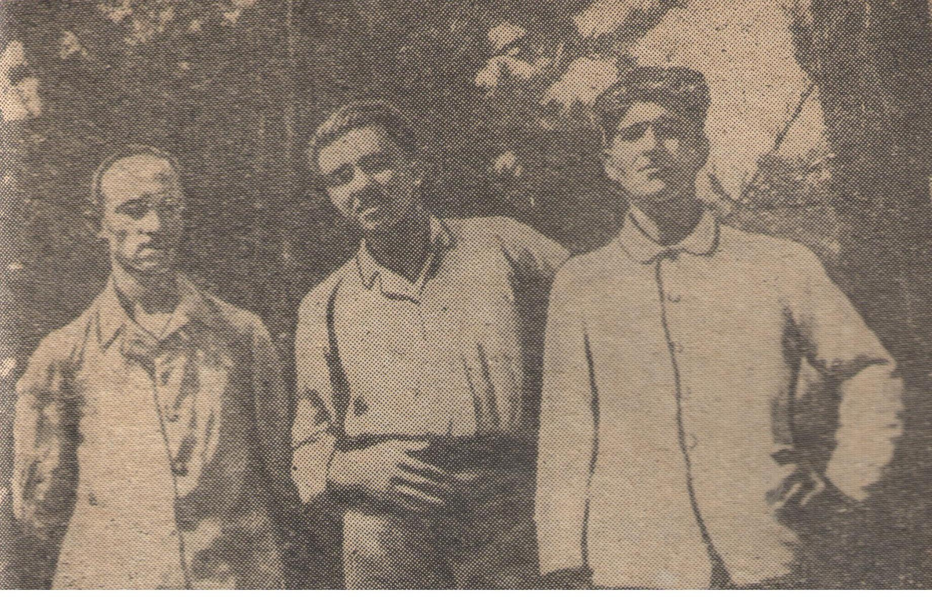 Mehdi Huseynzade in the middle. Javad Hakimov on the right.